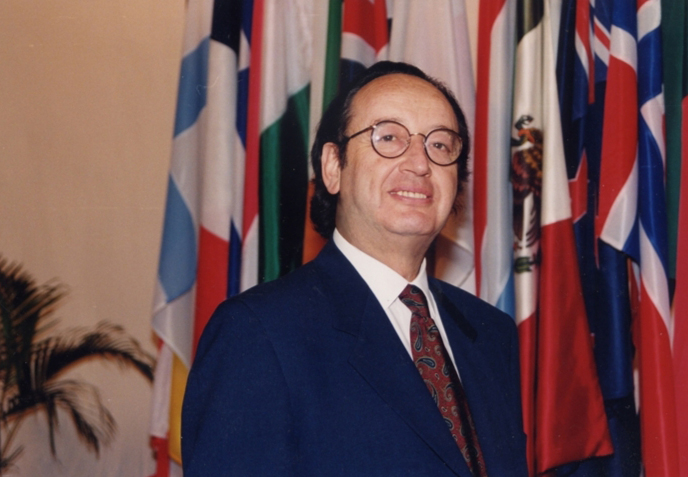 Andre Barsony in front of OECD countries' flags at OECD headquarters in Paris 1988 when he was appointed director